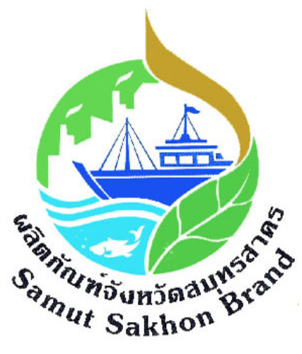 Provincial brand The picture of a white factory refers to various factories The image of a fishing boat refers being a seaside province Fish and blue water refers to the river and the sea The green leaf refers to agriculture